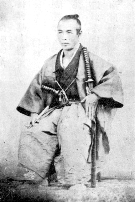 Mishima Okujirō. Photograph taken in Meiji 2. 45 years old.